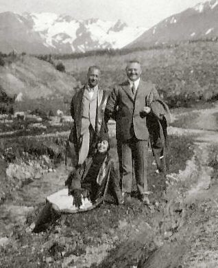 Employees of United States Consulate in Buenos Aires prior the boarding to German passenger liner Monte Cervantes in Ushuaia on January 22nd 1930. A few hours later the ship grounded in Beagle Channel near the city.